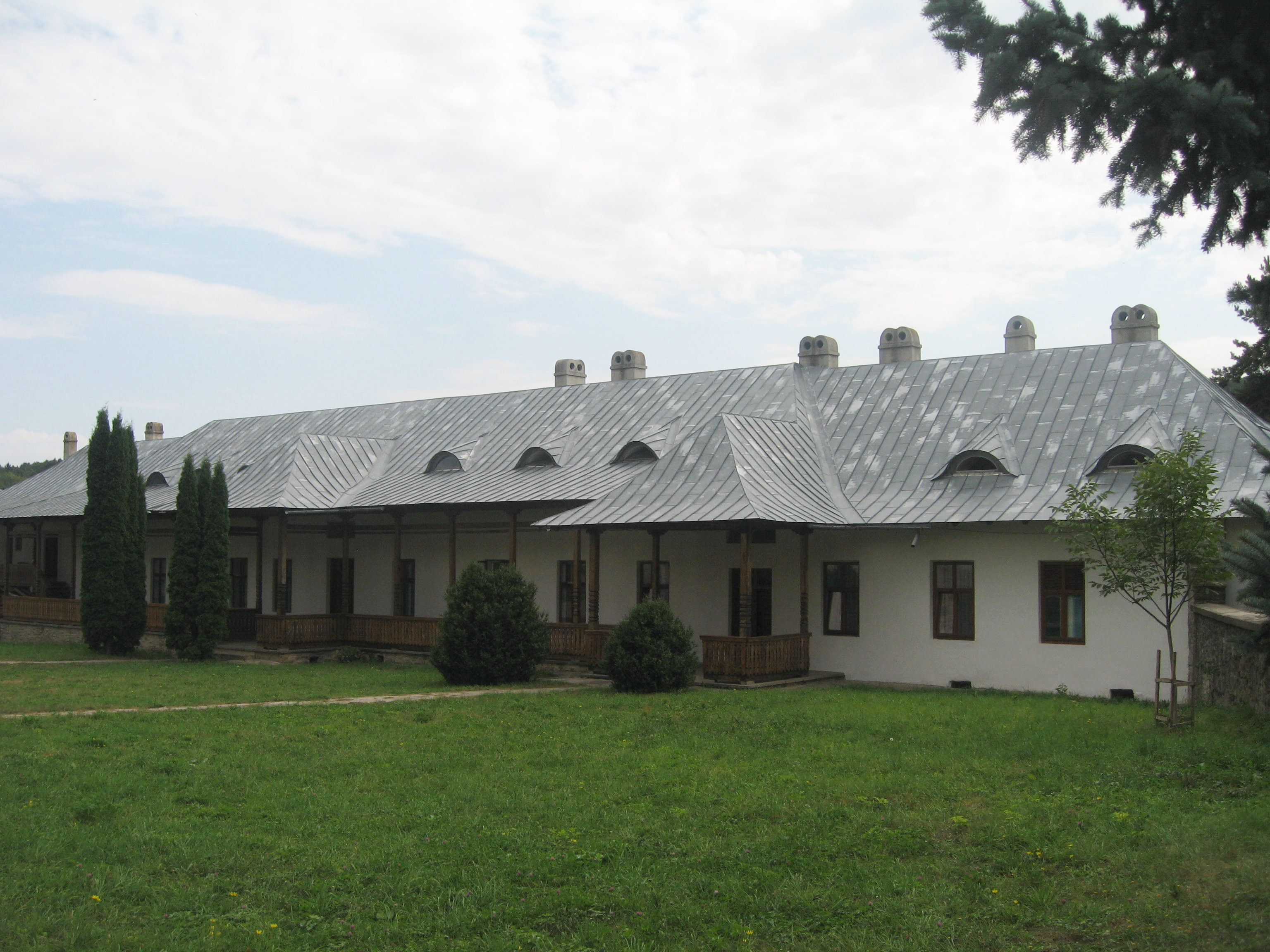 St. John the New Monastery in Suceava - the monastery cells.